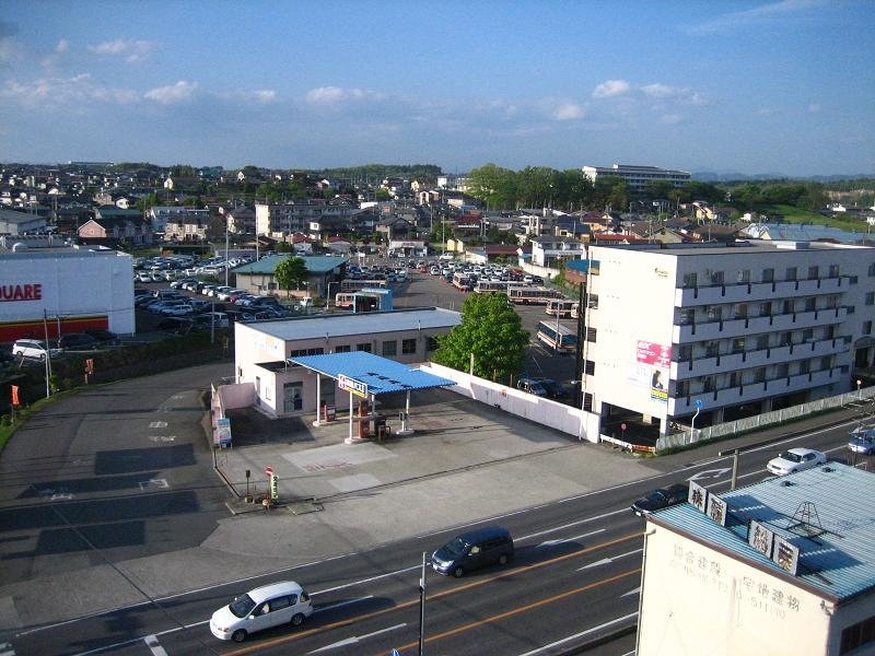 A picture of Sukagawa City in Fukushima Prefecture, Japan. Image was taken near Sukagawa station with a Canon PowerShot SD450 Digital Elph camera and edited using a Paint Shop program on a laptop computer.